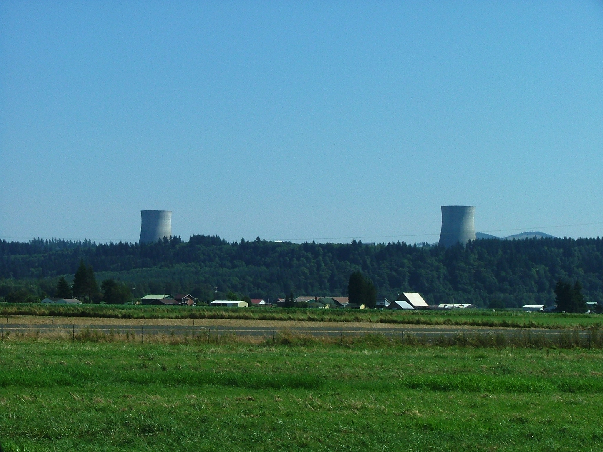 The towers of the abandoned Nuclear Power Plant in the hills above Satsop.